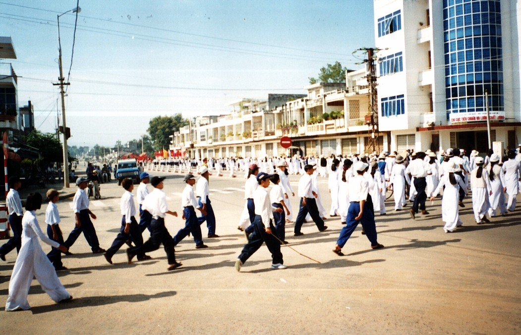 Kon Tum City - National Anti-Drug Rally